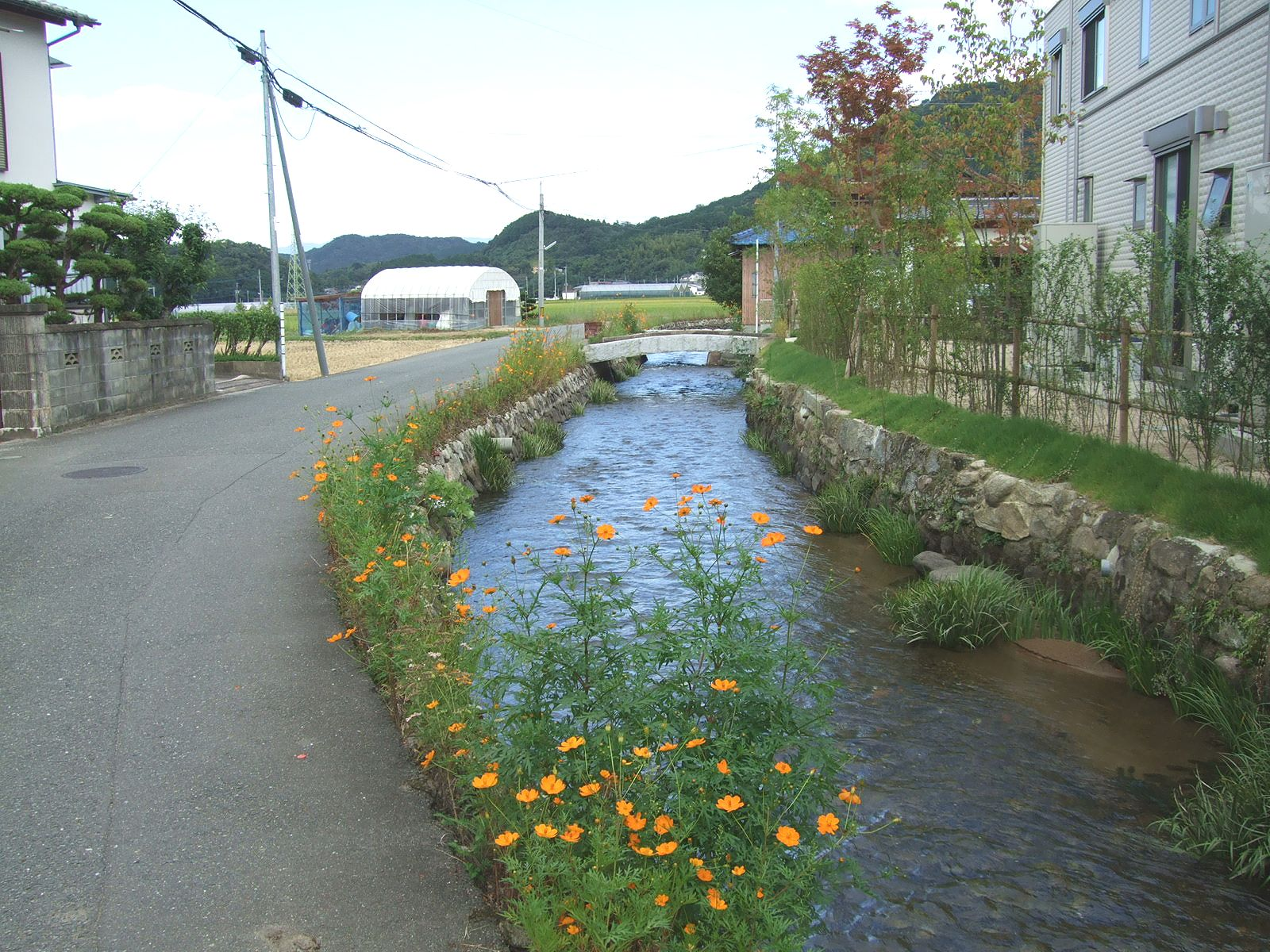 The aqueduct “Sakutano Unade”, Nakagawa Town, Fukuoka, Japan.